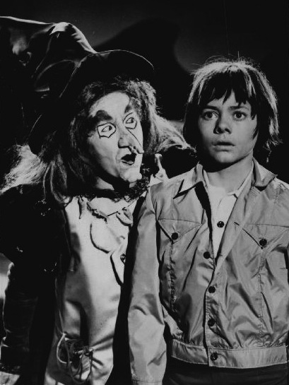 Publicity photo of television actors, Billie Hayes (left) and Jack Wild (right) promoting the NBC children's series, H.R. Pufnstuf, 1969.